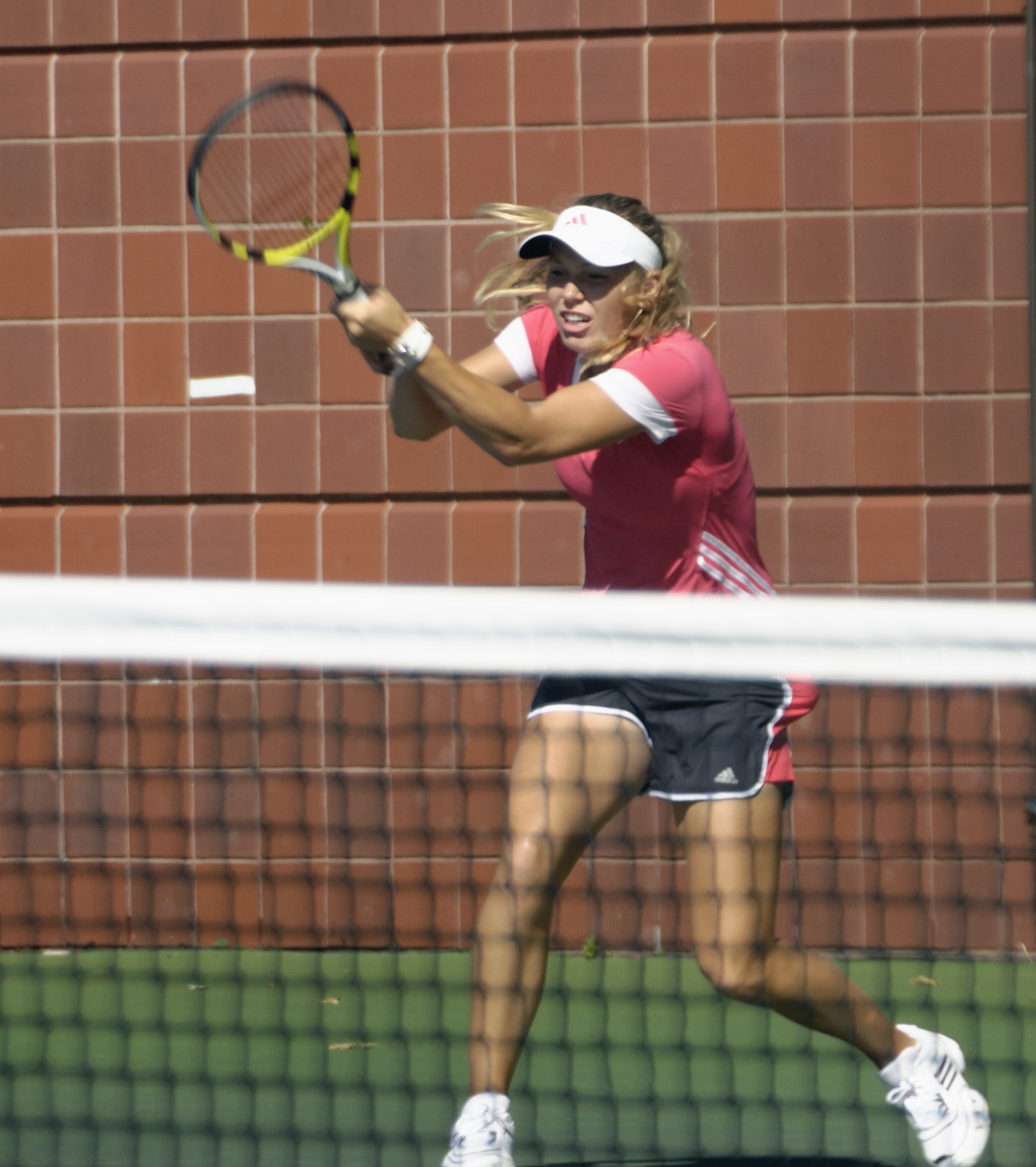 Caroline Wozniacki at the 2009 US Open